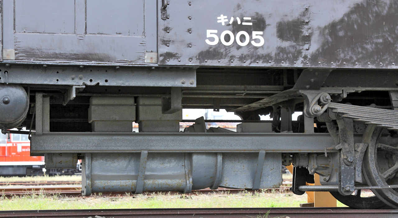 JNR Kihani 5000 Gasoline Railcar's powertrain (replica), in Naebo Workshop.